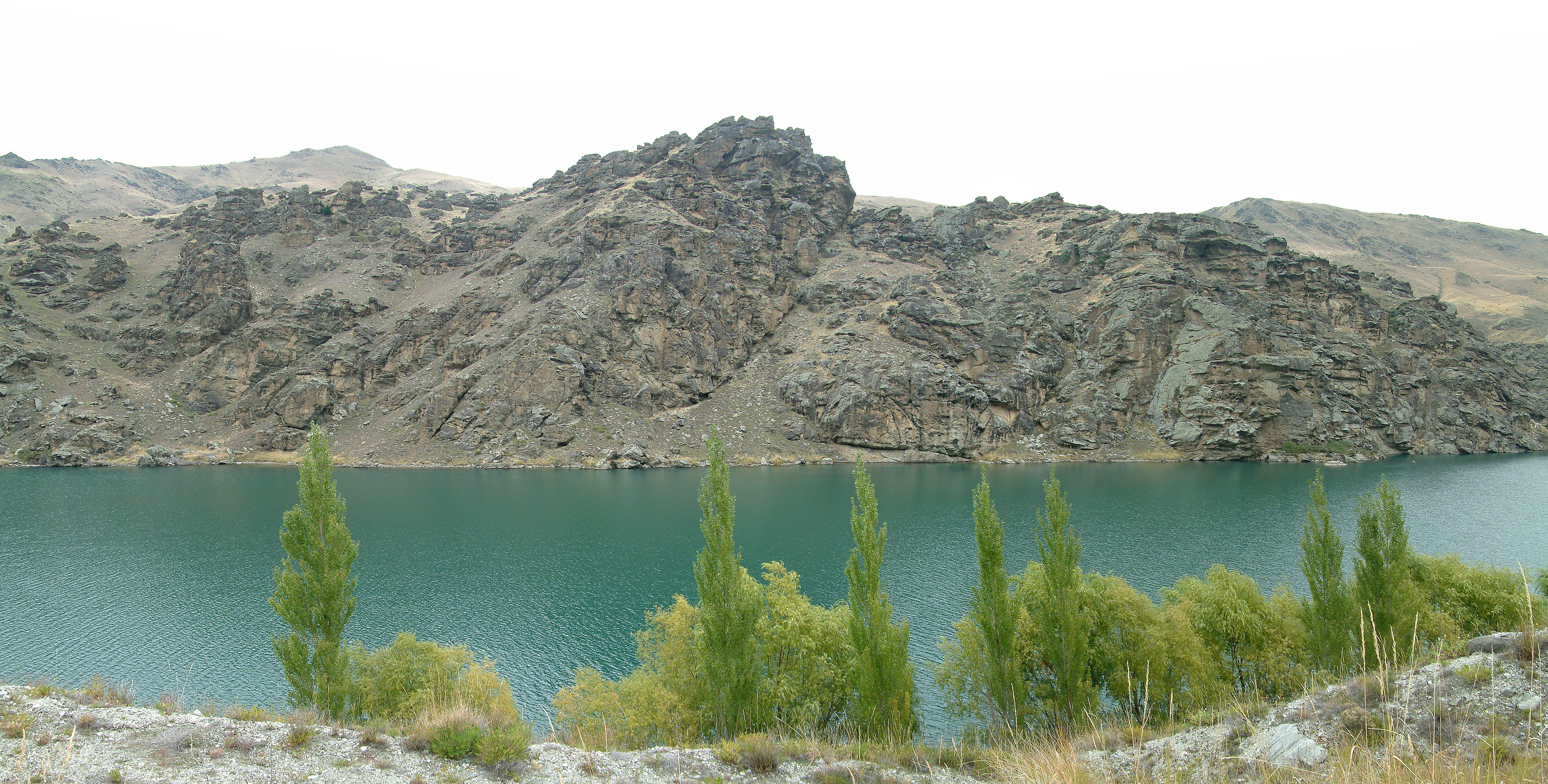 Rock formations in the Cromwell Gorge between Cromwell and Clyde. The lake is Lake Dunstan which is in fact man-made to create the nearby Clyde Dam.